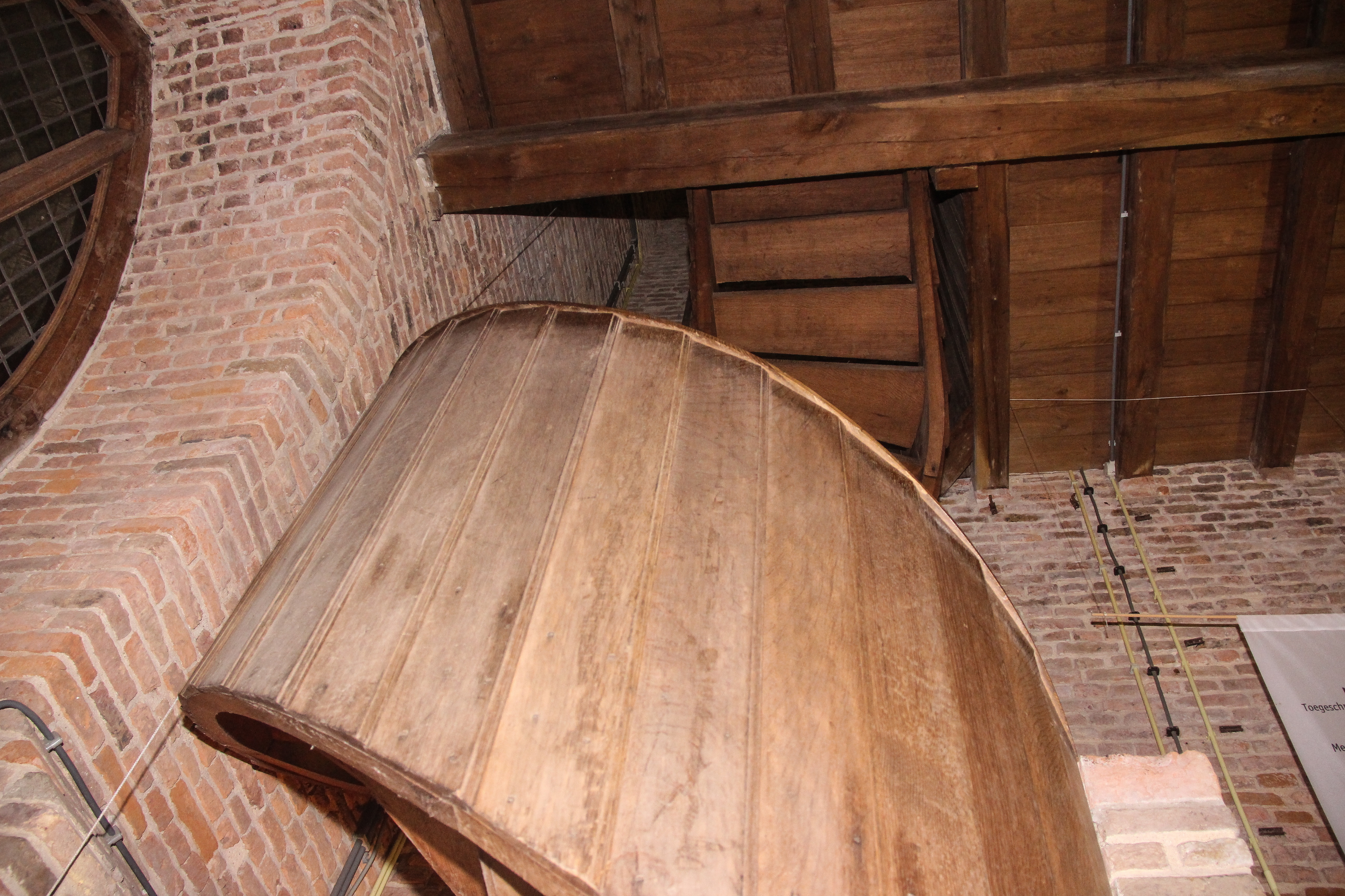 Round staircase above village church Spijkenisse